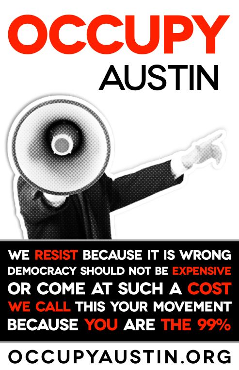 Poster for Occupy Austin in Austin, Texas Note: There appears to be absolutely no copyright on this poster whatsoever.